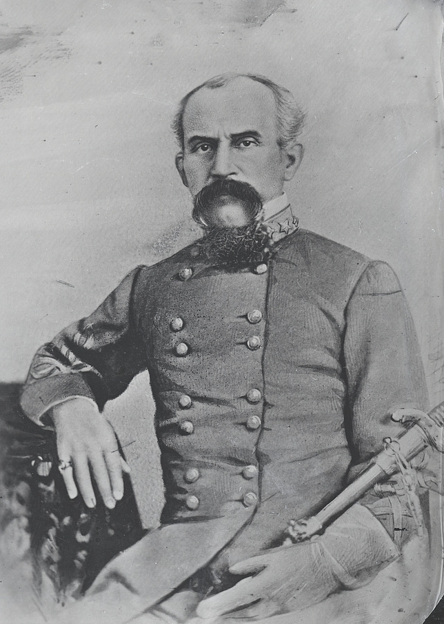 Photograph shows Confederate general Isaac Ridgeway Trimble (1802-1888), half-length portrait, facing front, glass, dry plate.